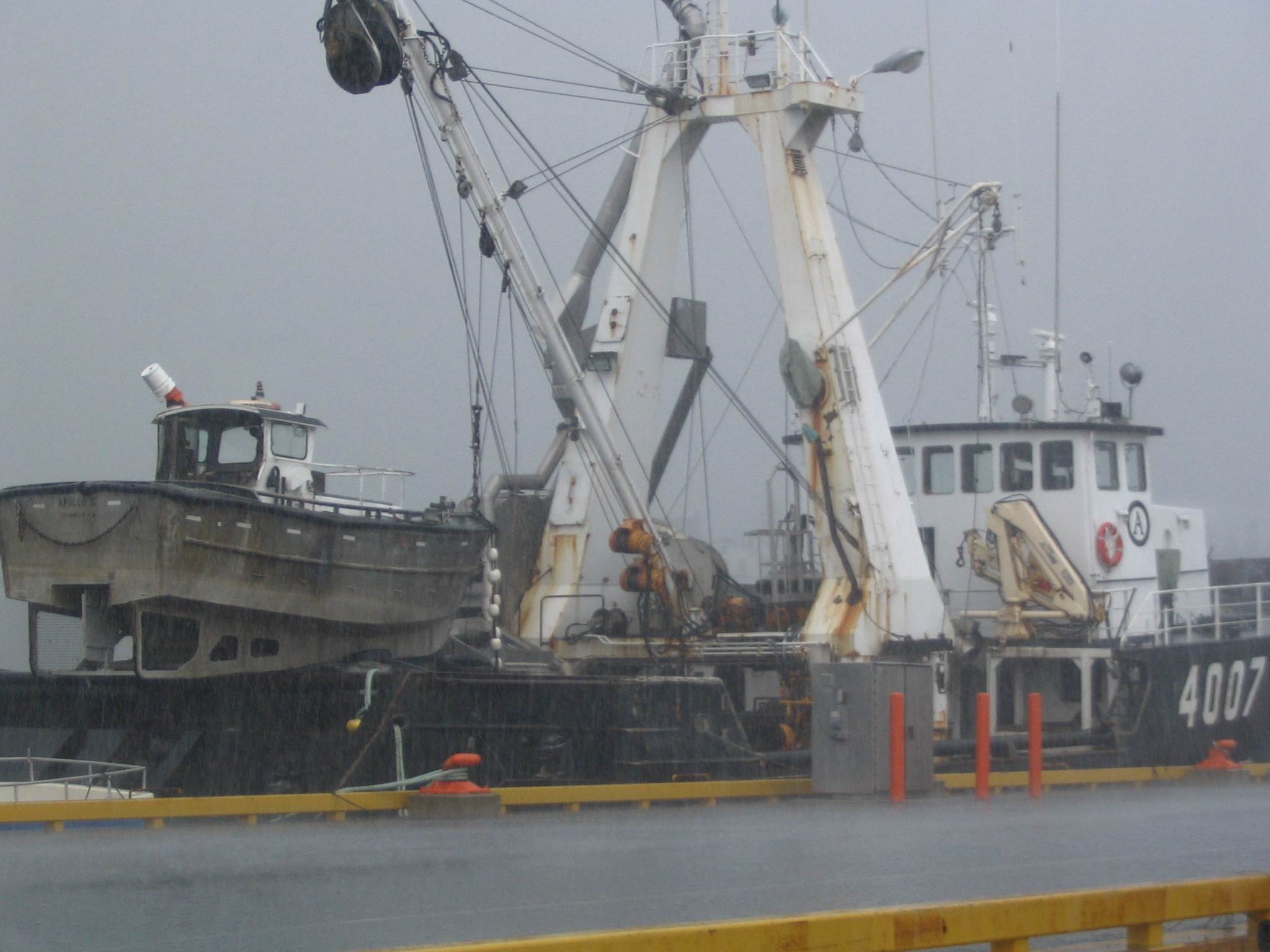 The Apollo III, a major canadian fishing boat once based in Caraquet, New Brusnwick. Now in Ecuador.